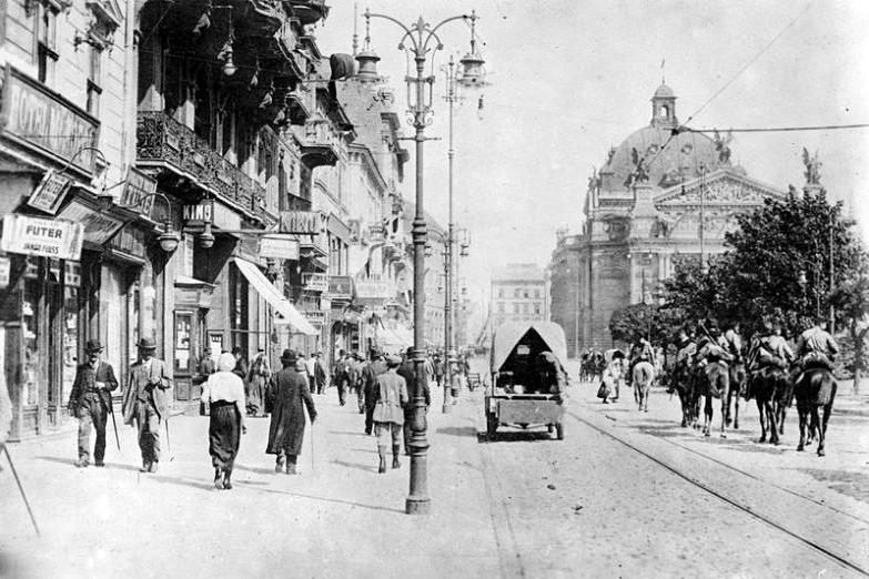 Lviv, Wały Hetmańskie avenue, ca 1900